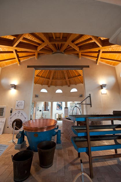 Museum of the Parmigiano Reggiano - Soragna (PR) - Italy